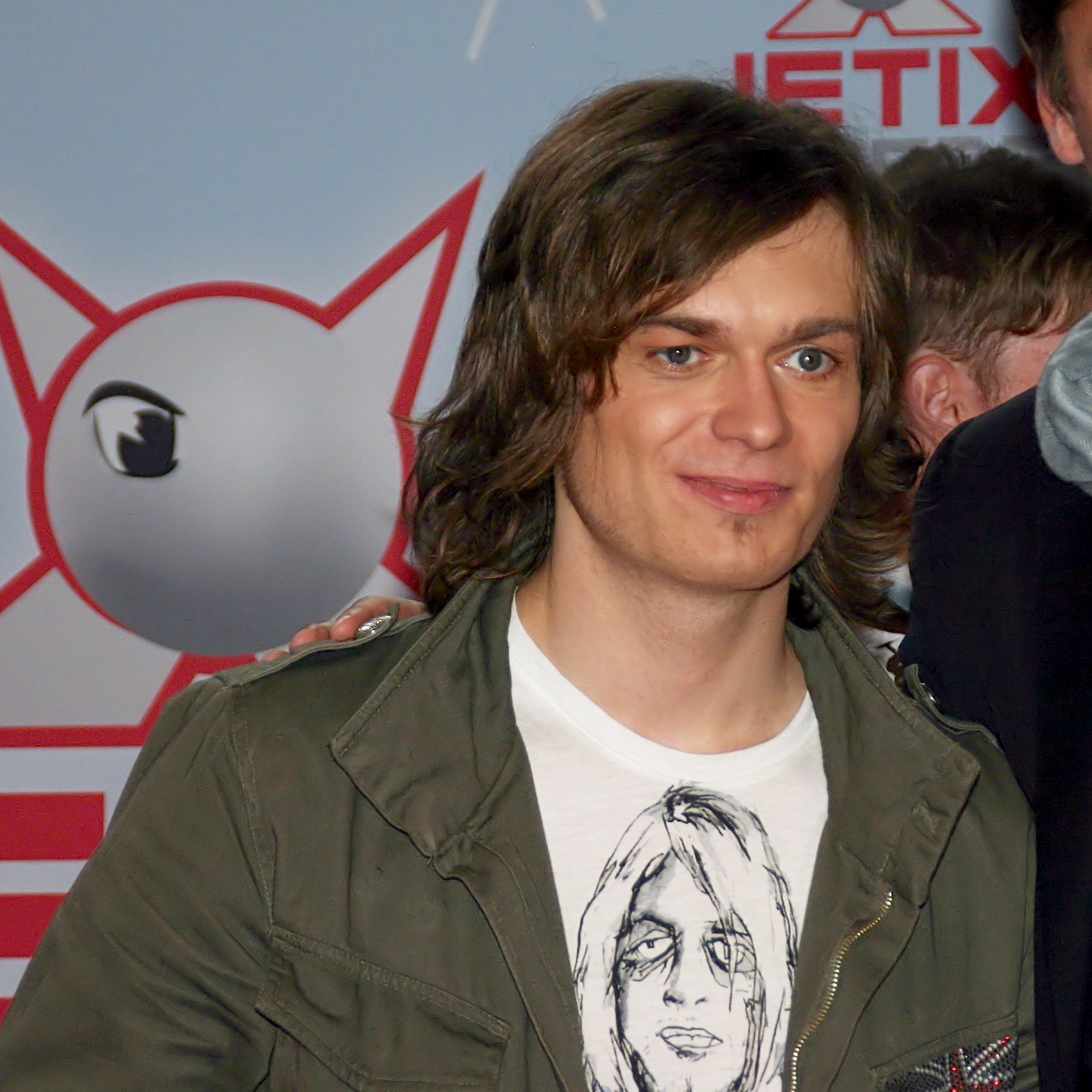 Thomas Godoij during the conferment of the JETIX Award at the youth fair "YOU", Berlin